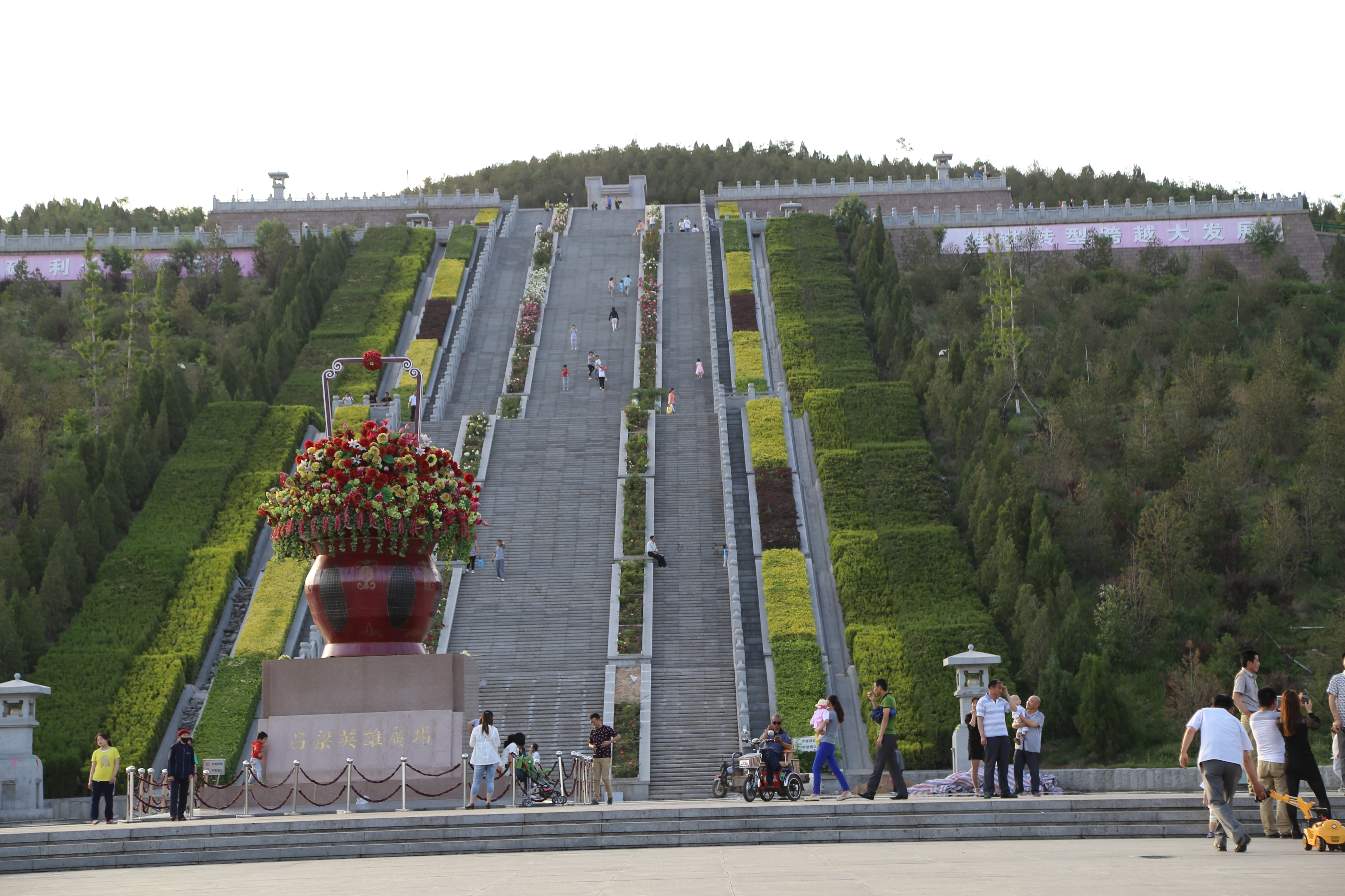 Tomb of Hua Guofeng in Jiaocheng, Shanxi province. See from the bottom to top